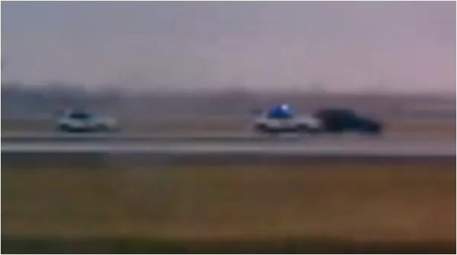 A photo of the Kenneth Mazik police chase.